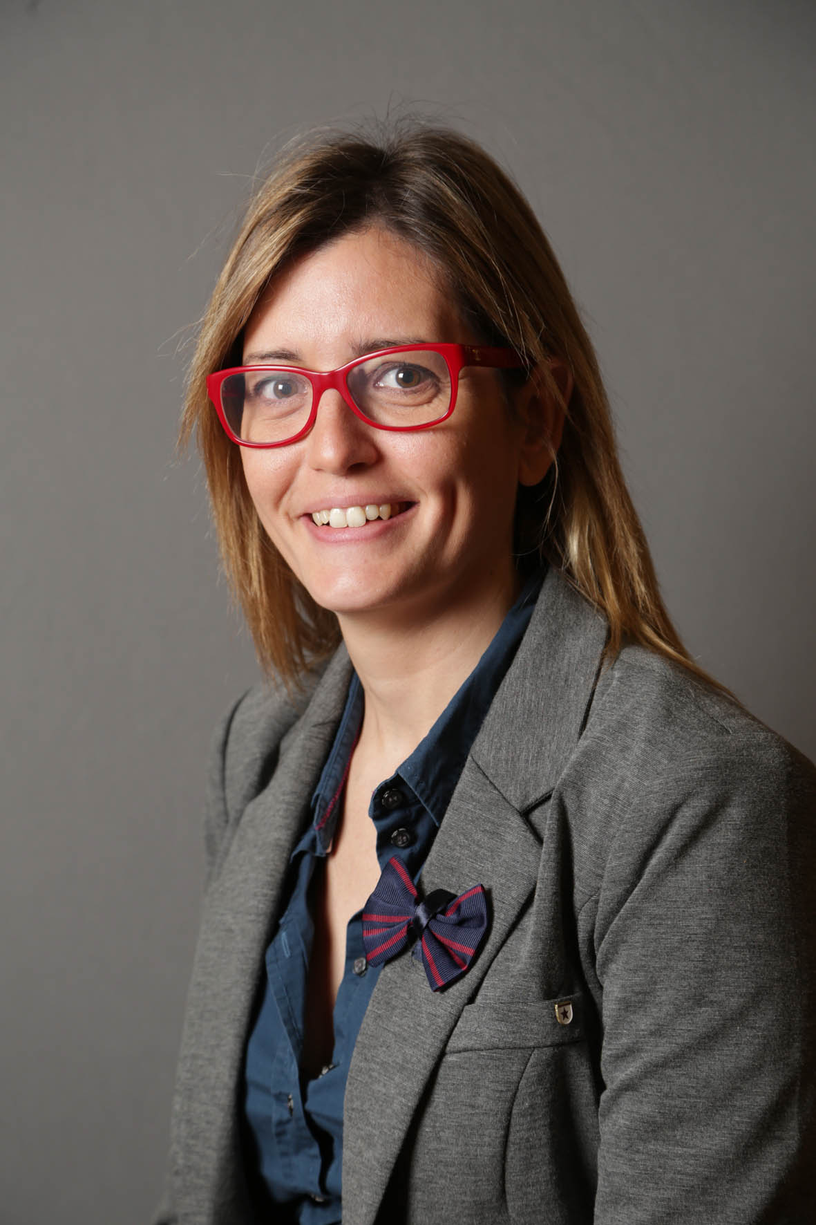 Candidats Eleccions Generals 2015 Elisenda Barceló